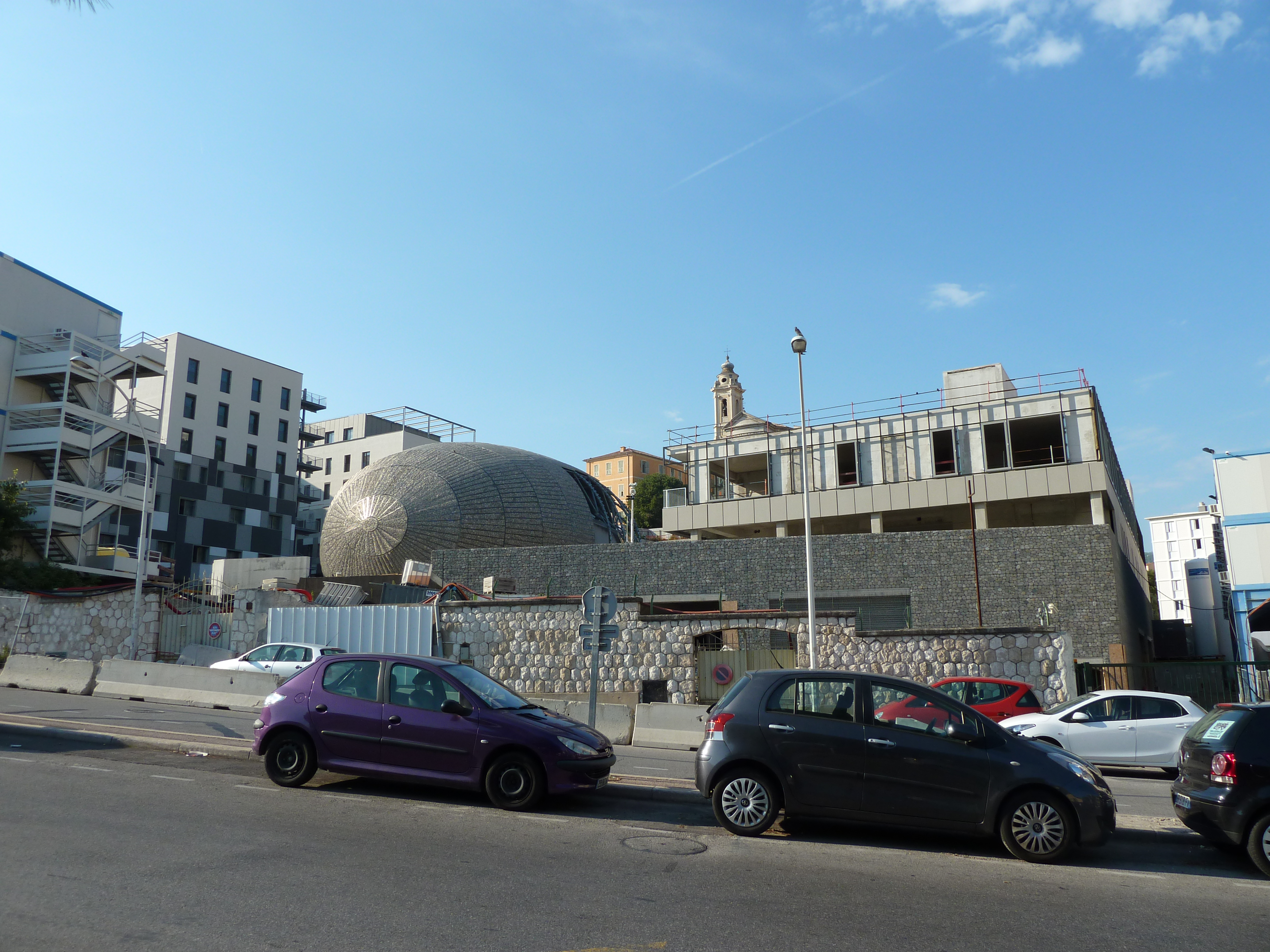 Pasteur hospital